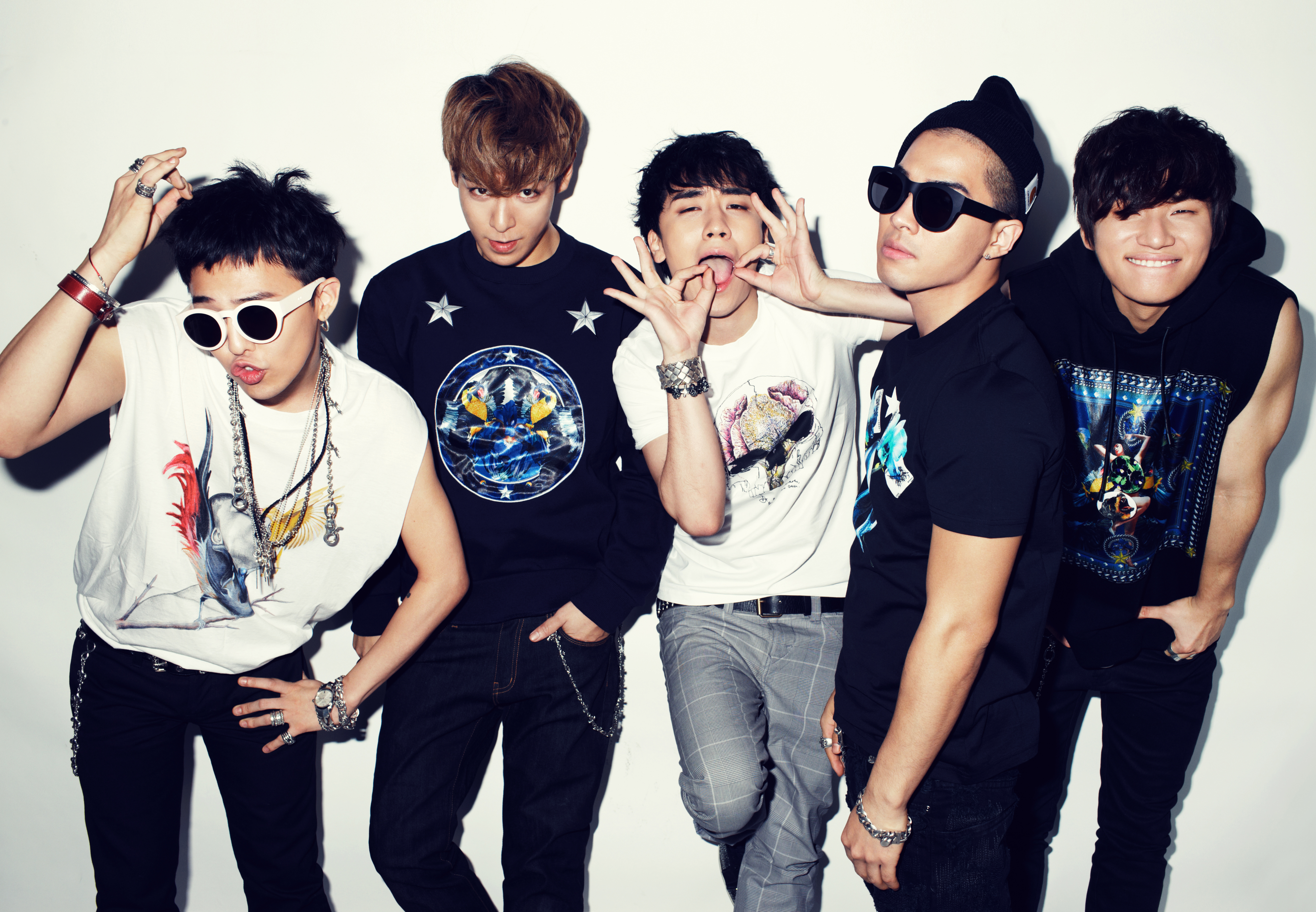 2012 BIGBANG 1st Photograph Collection "EXTRAORDINARY 20's".